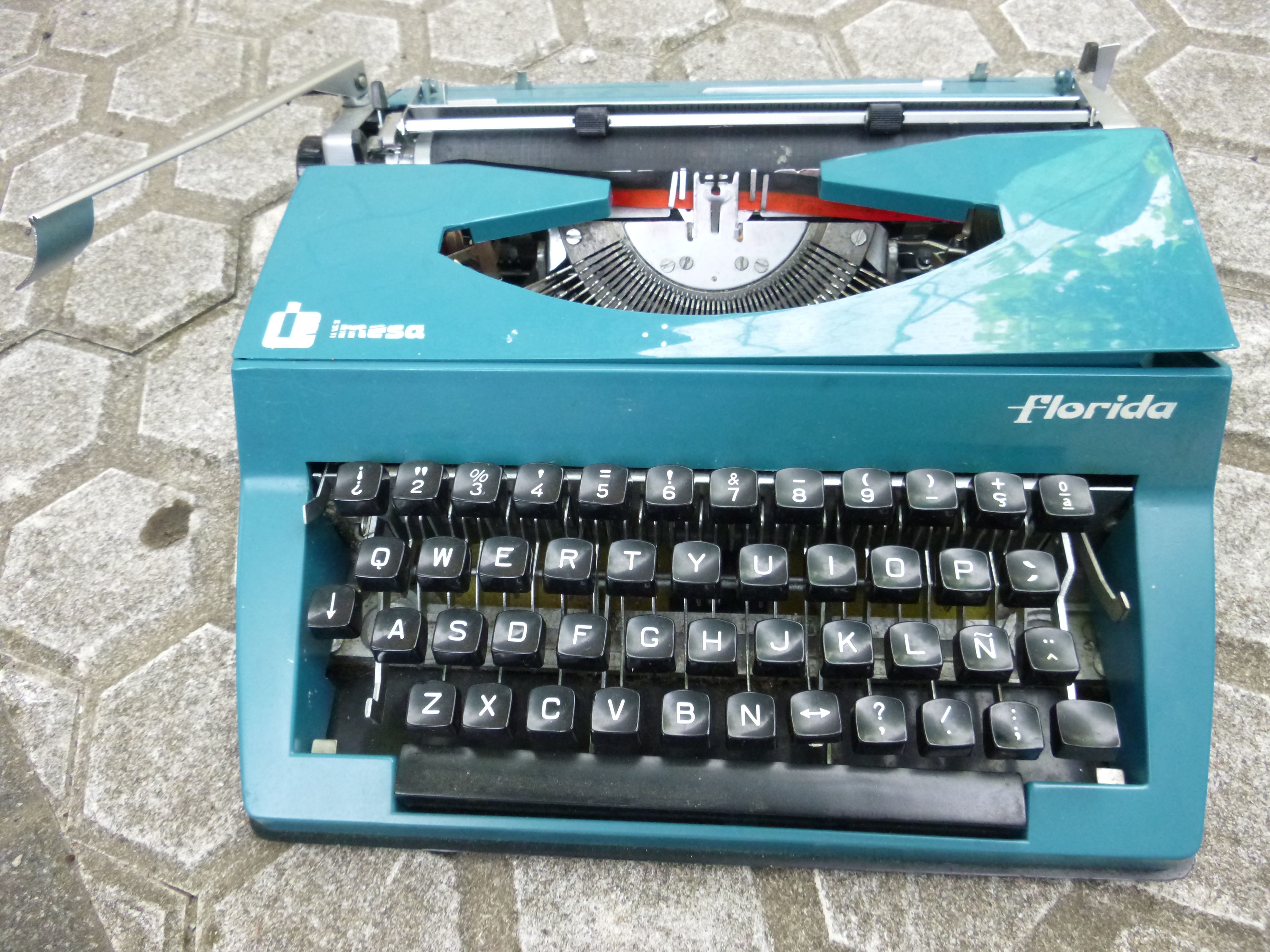 Typewriter Imesa Florida